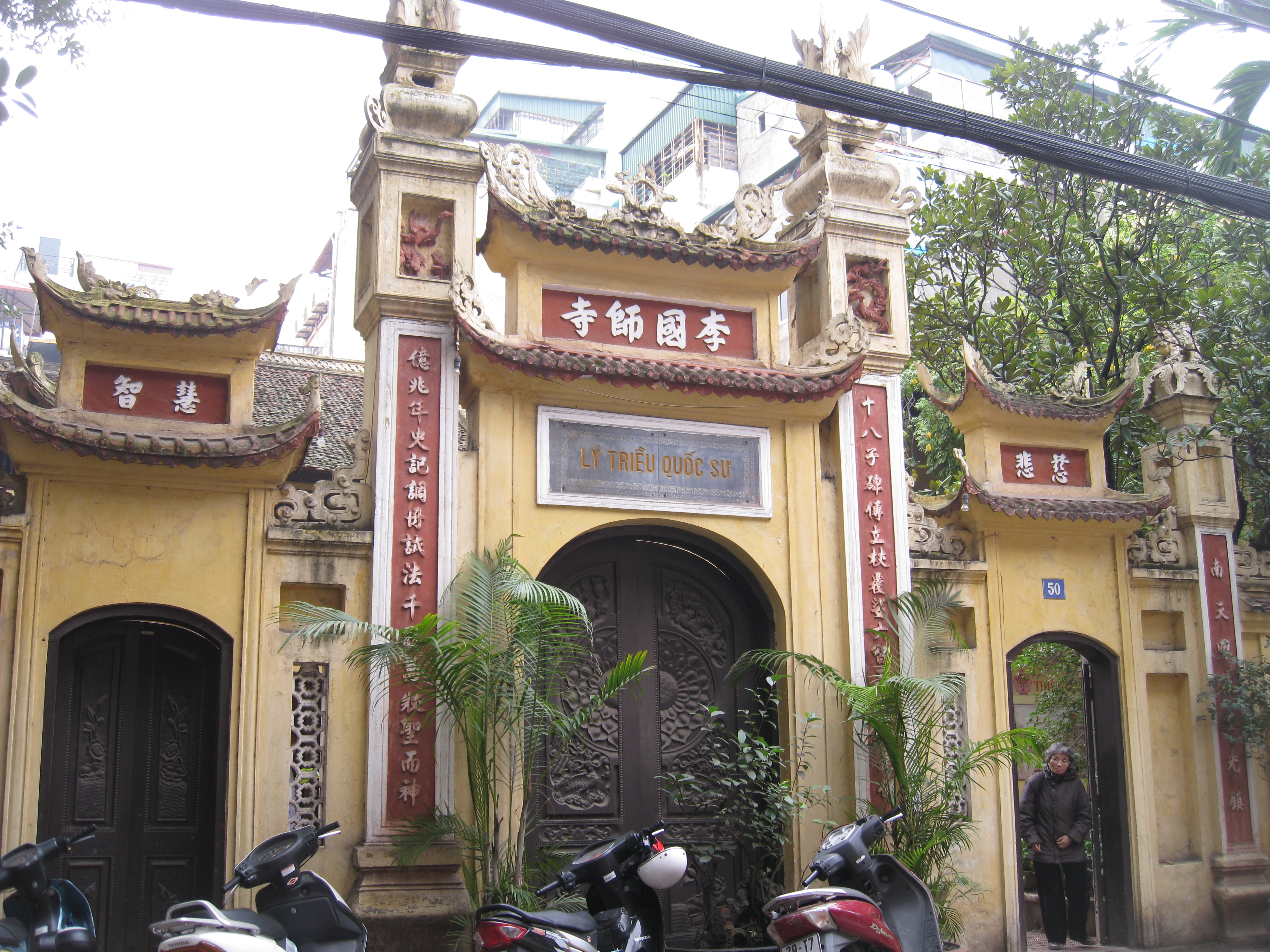 Lý Quốc Sư Pagoda, Hanoi.